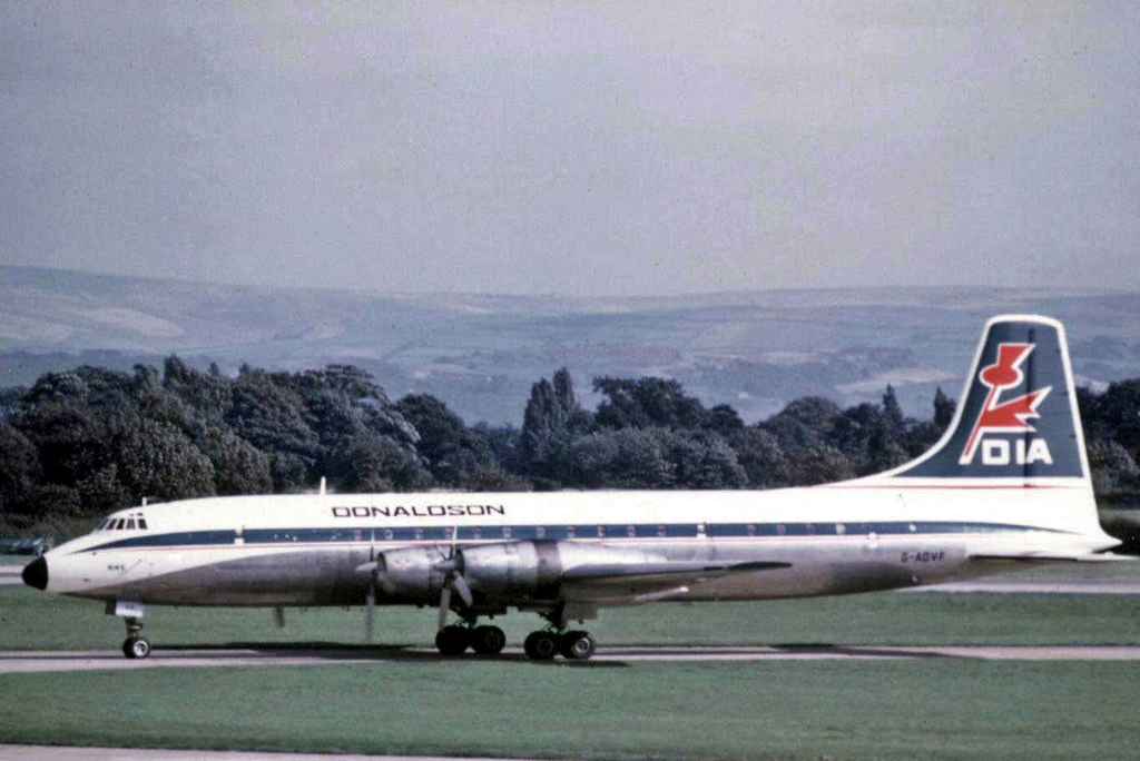 Donaldson Airways Bristol 175 Britannia 312 G-AOVF at Manchester Airport